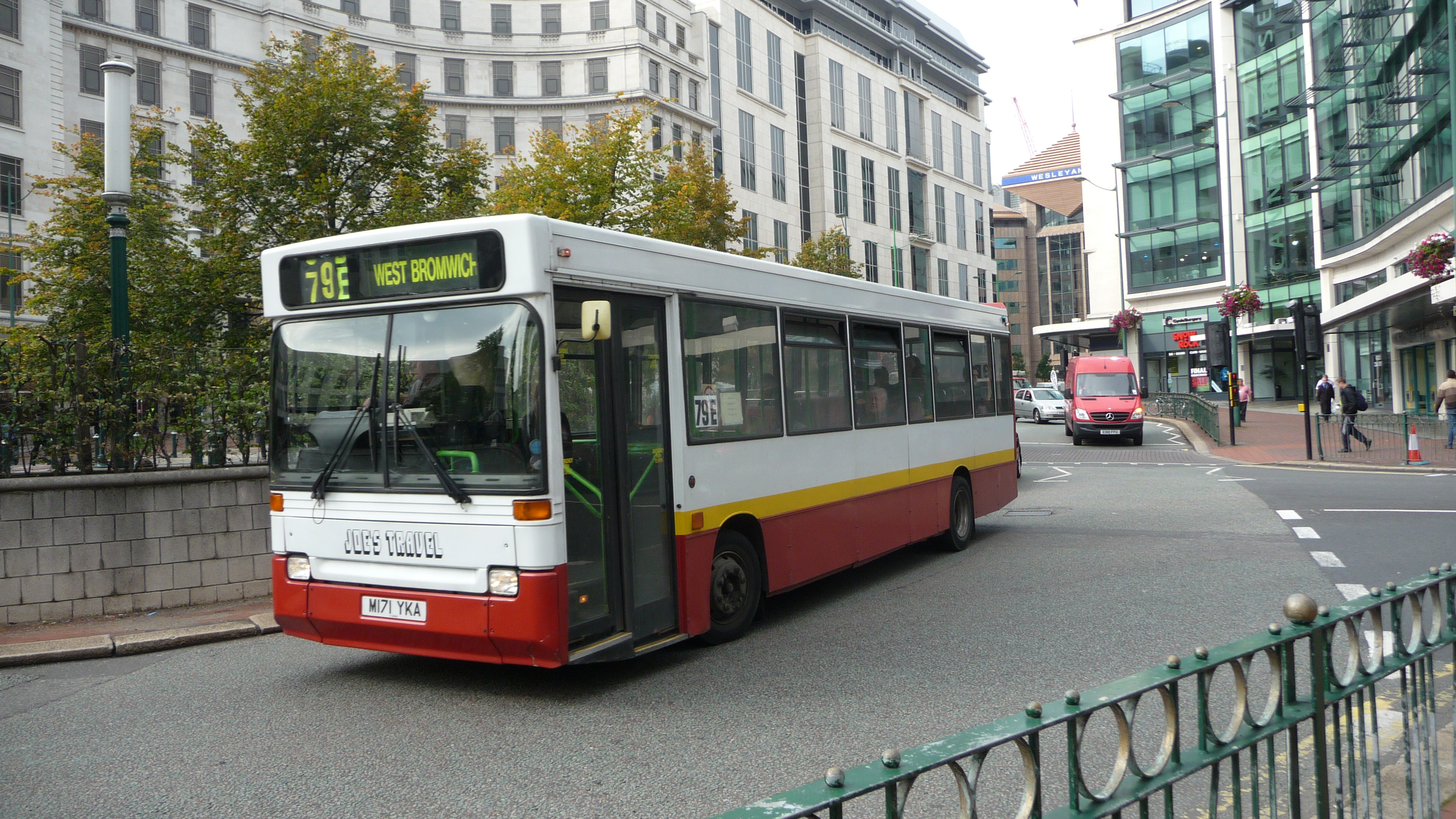 Joe's Travel M171 YKA, a Dennis Dart/Plaxton Pointer, at Old Square, Birmingham city centre, on route 79E.